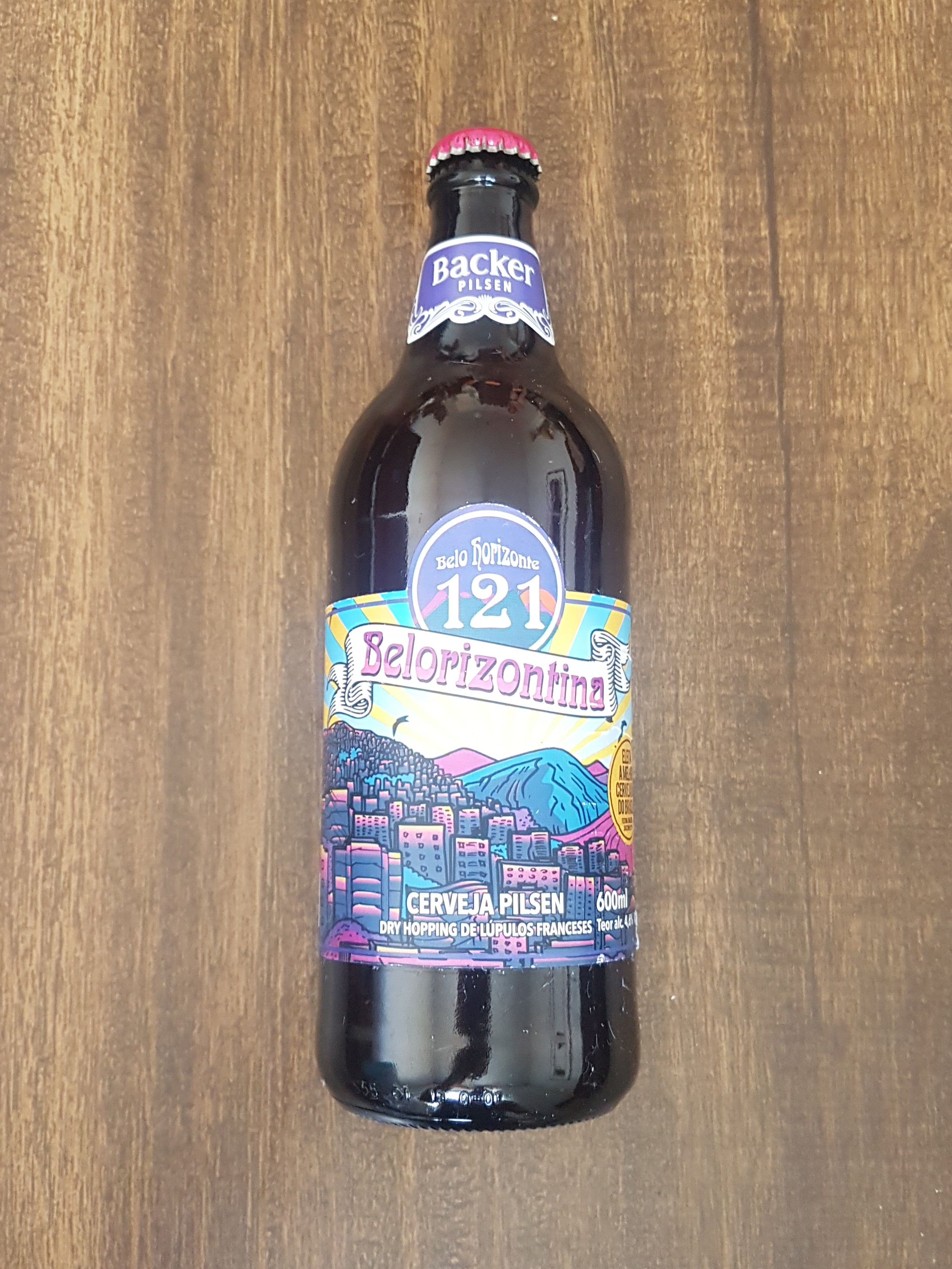 A bottle of Belorizontina, from the Bäcker brewery. On the label, the brewery mentions the 121 years of the city of Belo Horizonte, since its emancipation.